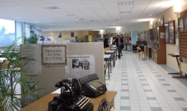 Salle de lecture de la bibliothèque